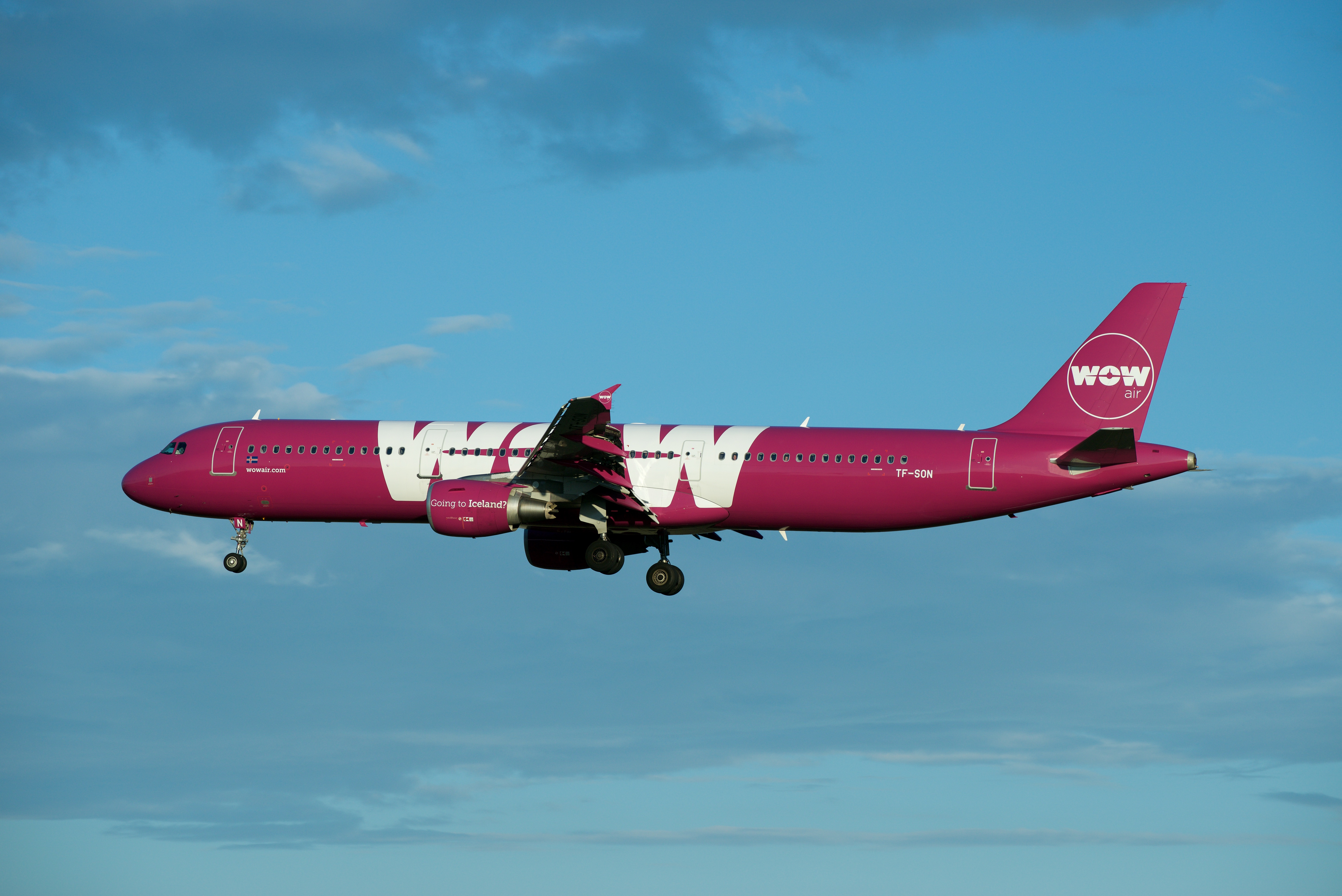 Arriving YYZ